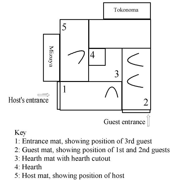 Typical winter tea room layout in a 4 1/2 mat tea room, showing position of tatami, tokonoma, mizuya, entrances, hearth, guests and host.